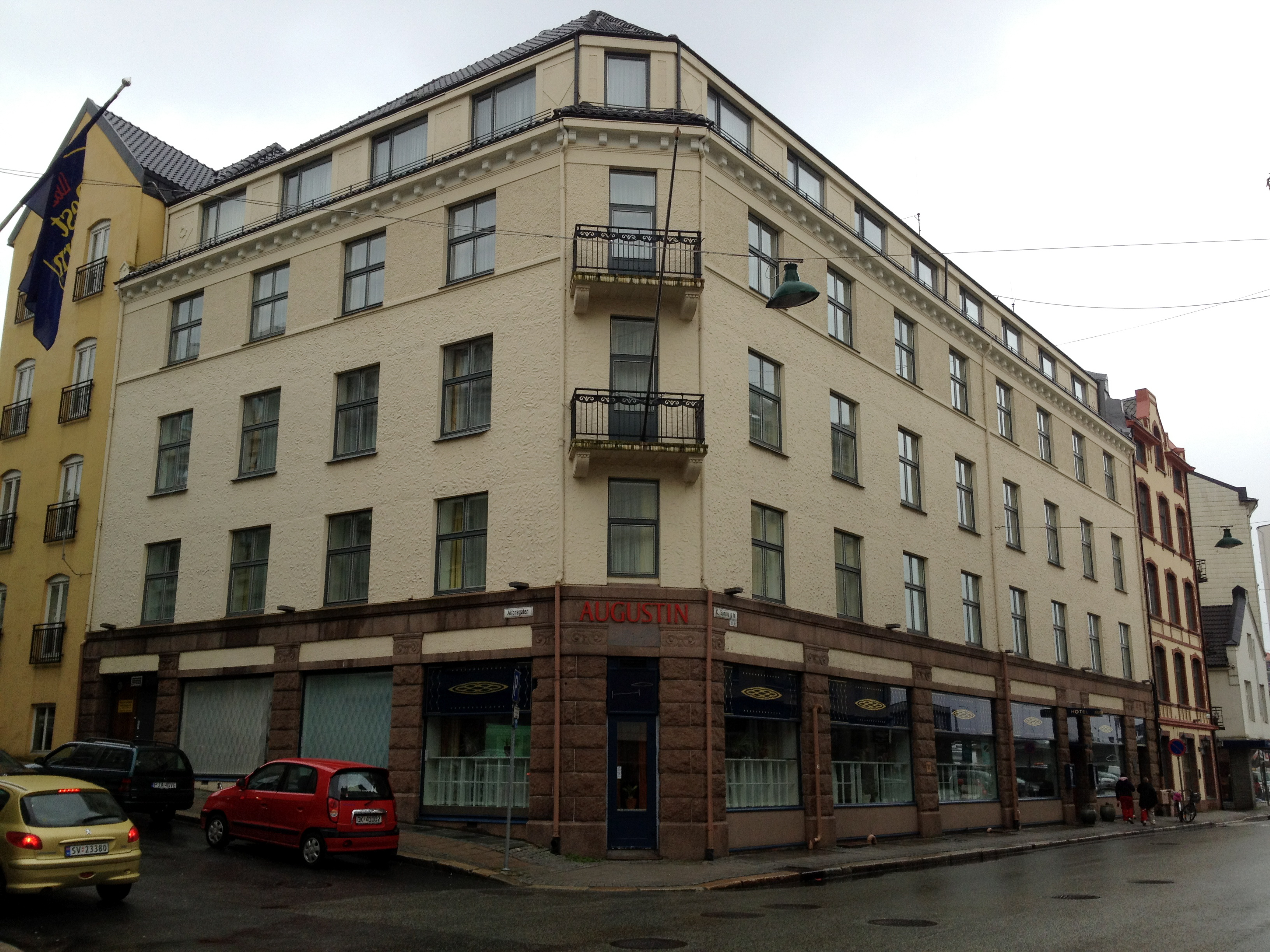 Augustin Hotel in Bergen, Norway